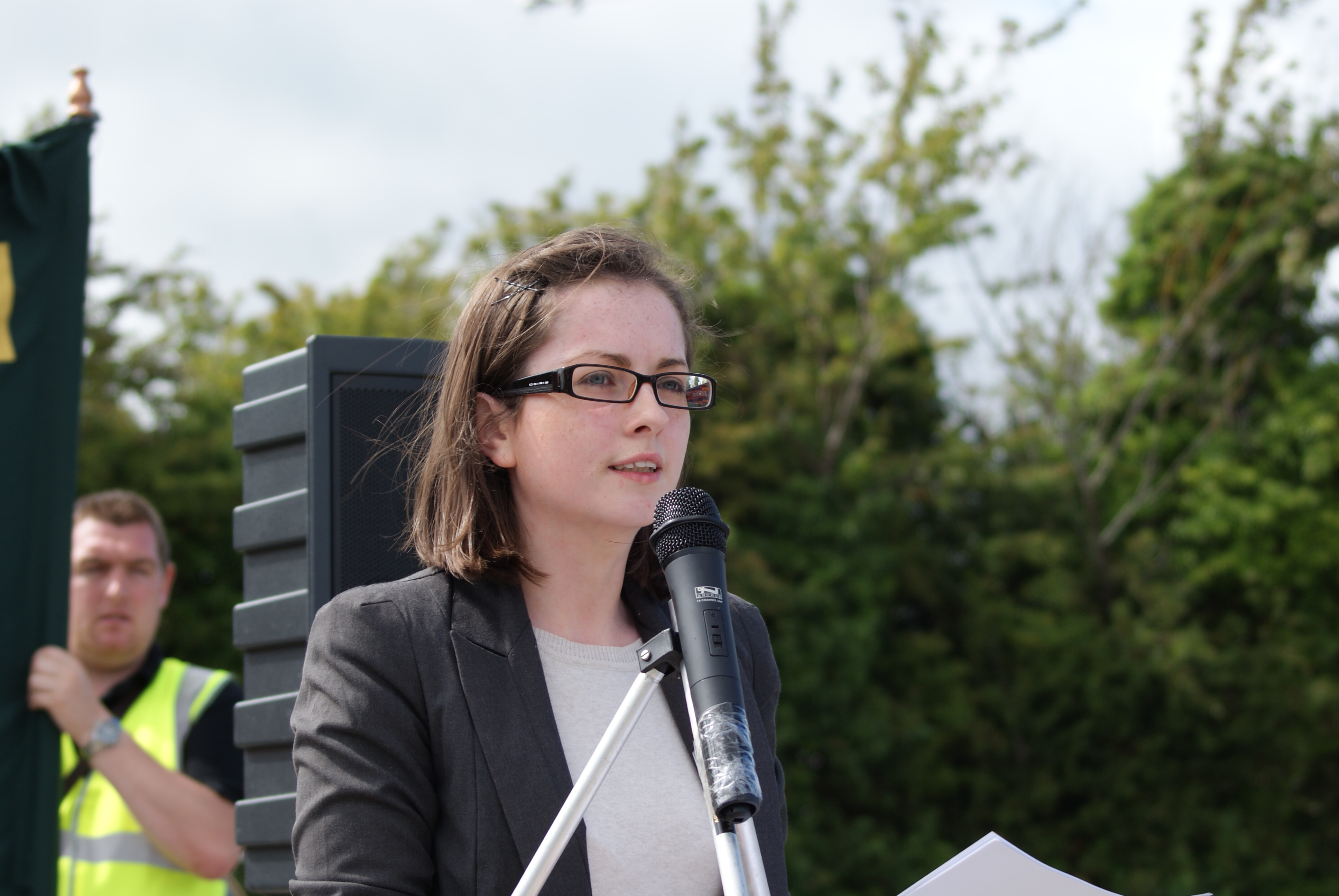 Picture of Irish Sinn Féin Senator Kathryn Reilly, speaking at a commemoration